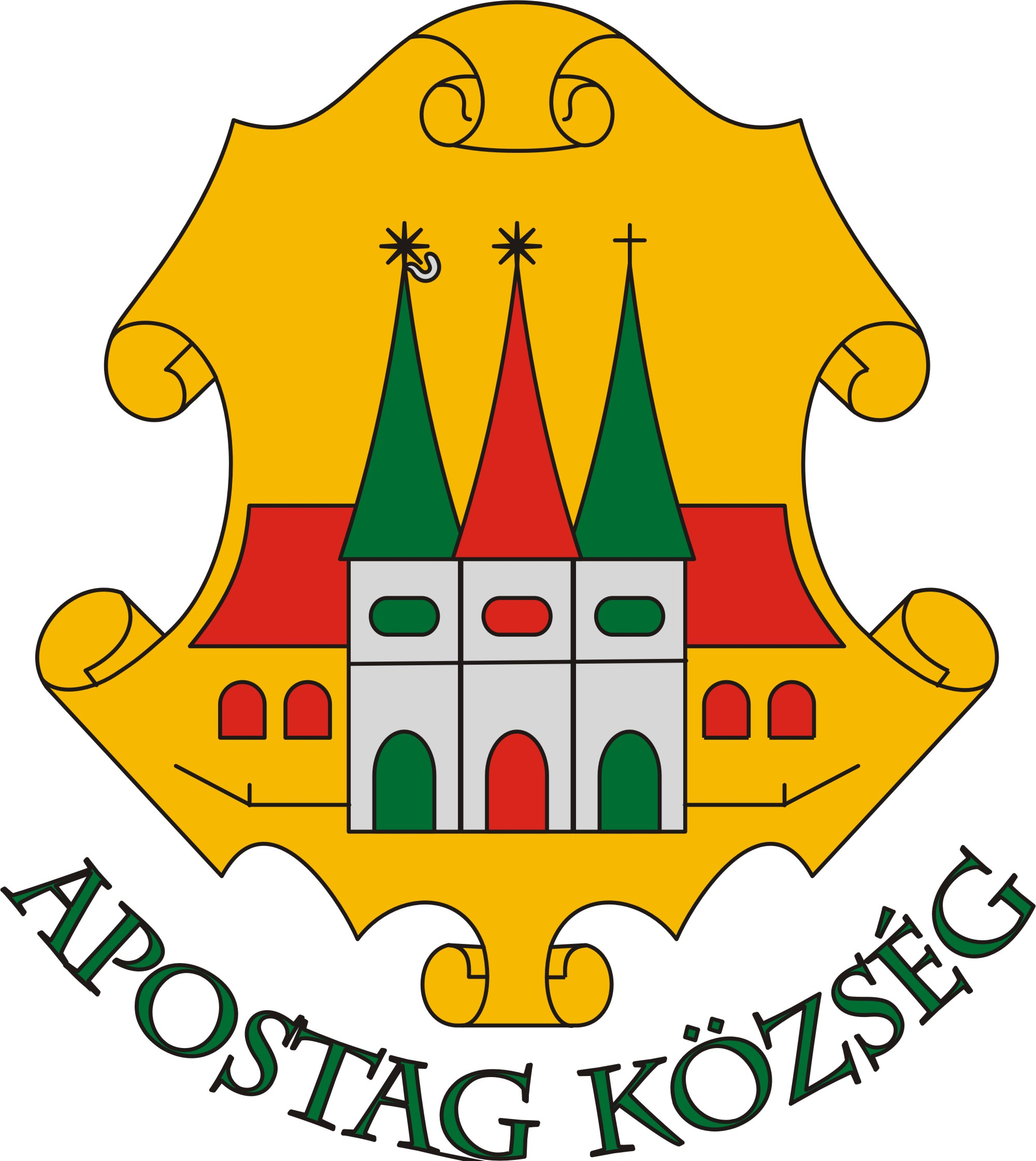 Coat of arms of Apostag, Hungary